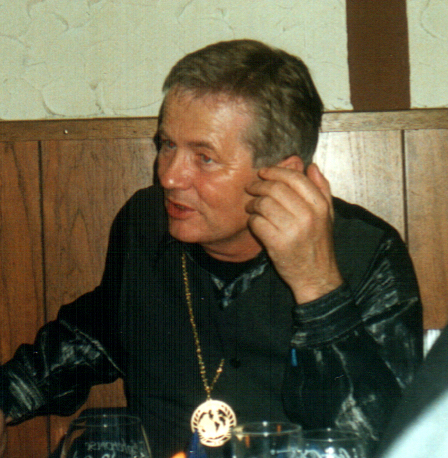 German actor and dubbing actor Frank-Otto Schenk